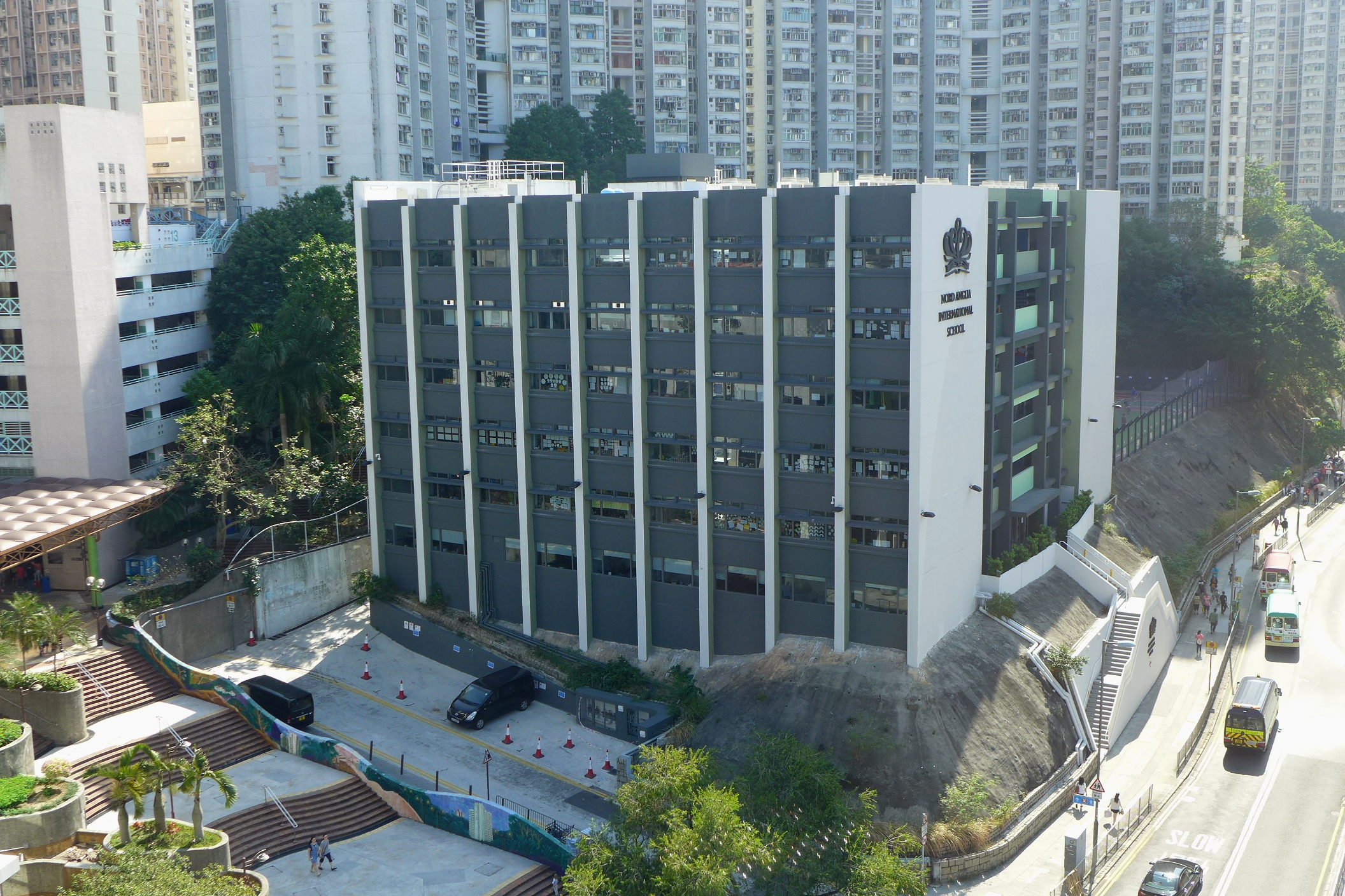 Nord Anglia International School Hong Kong